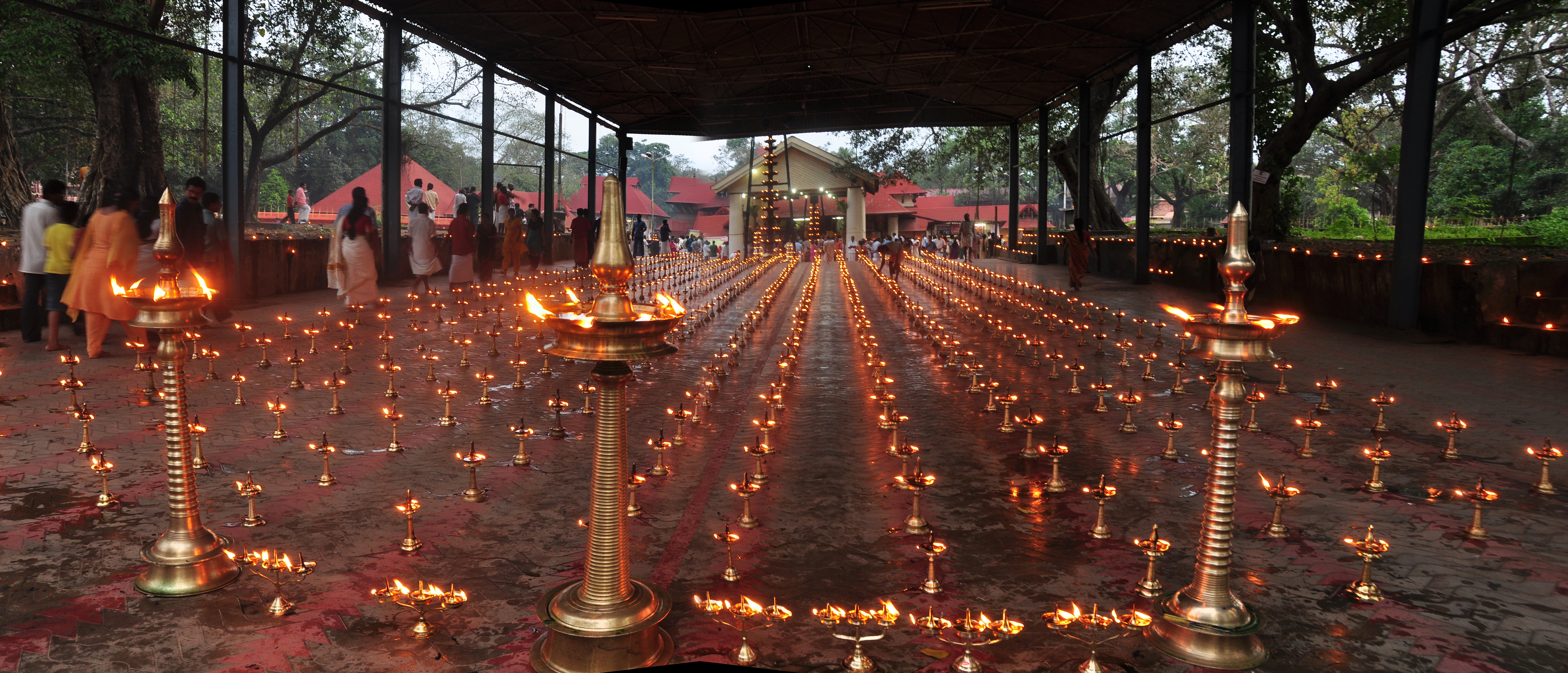 1000 lights at Kodungallur Devi temple during navaratri